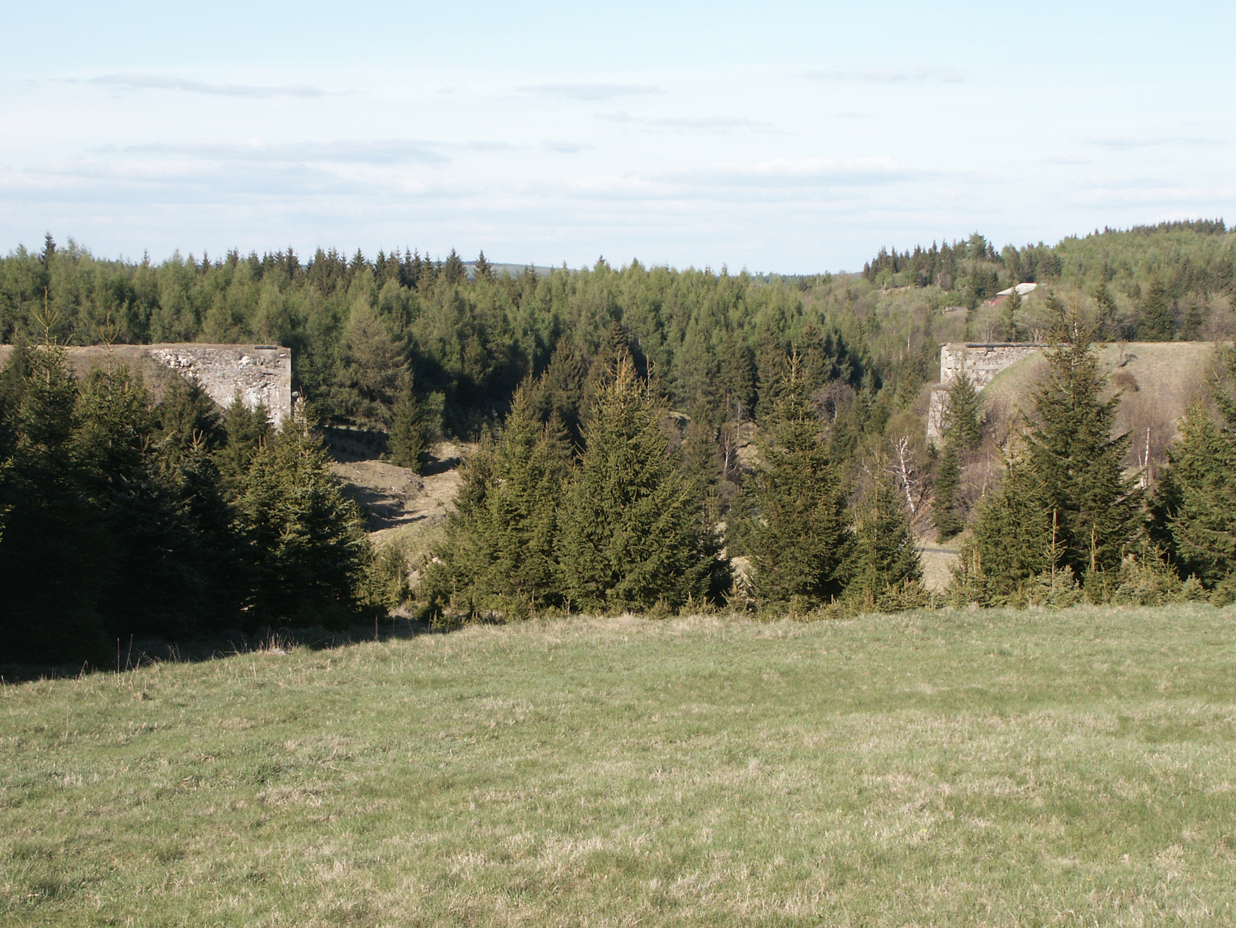 Abolished railway bridge over Chomutovka by Hora Sv Sebestiana